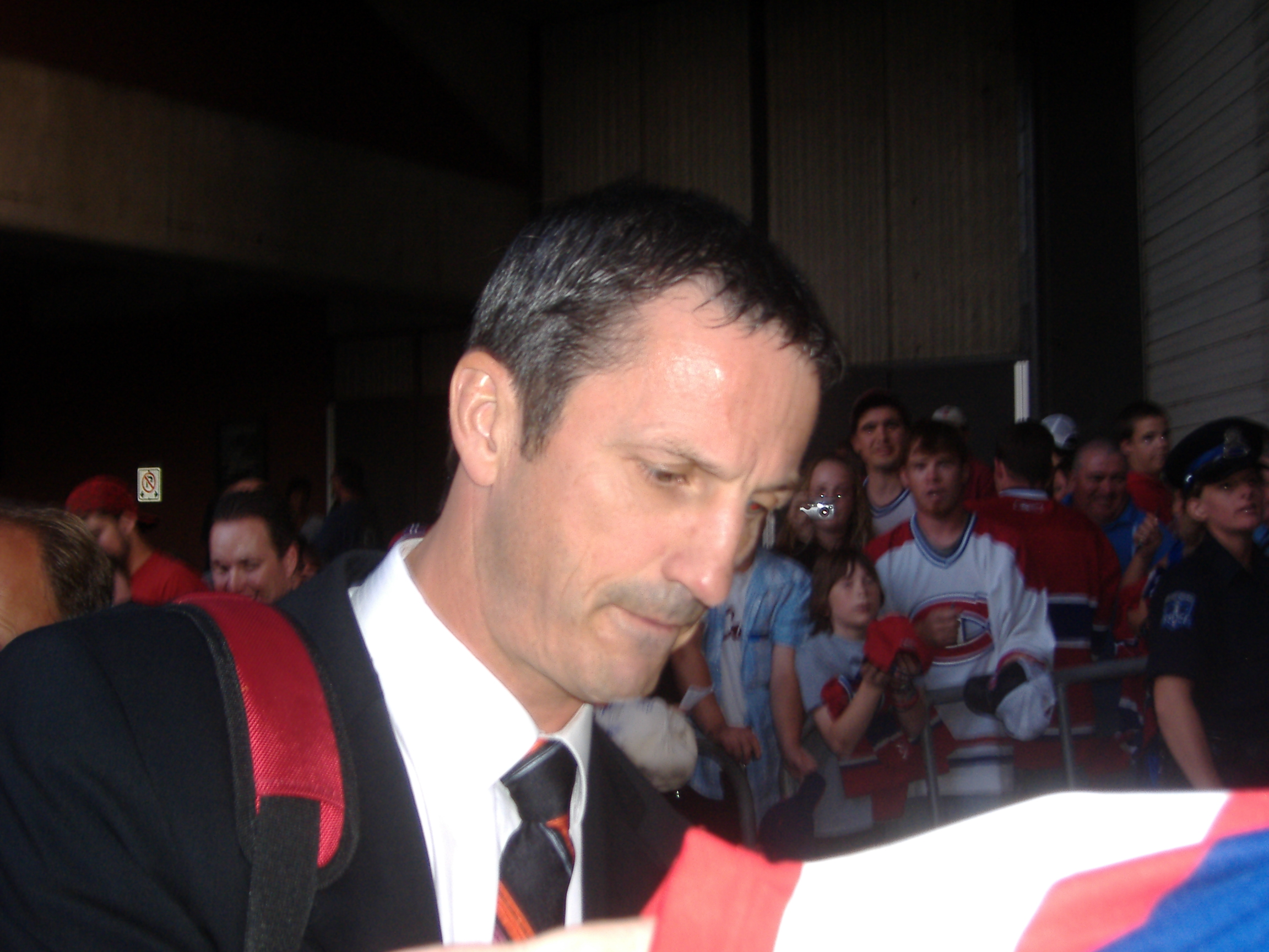 Guy Carbonneau outside Halifax Metro Center after Montreal Canadiens exhibition game on September 28th, 2007.